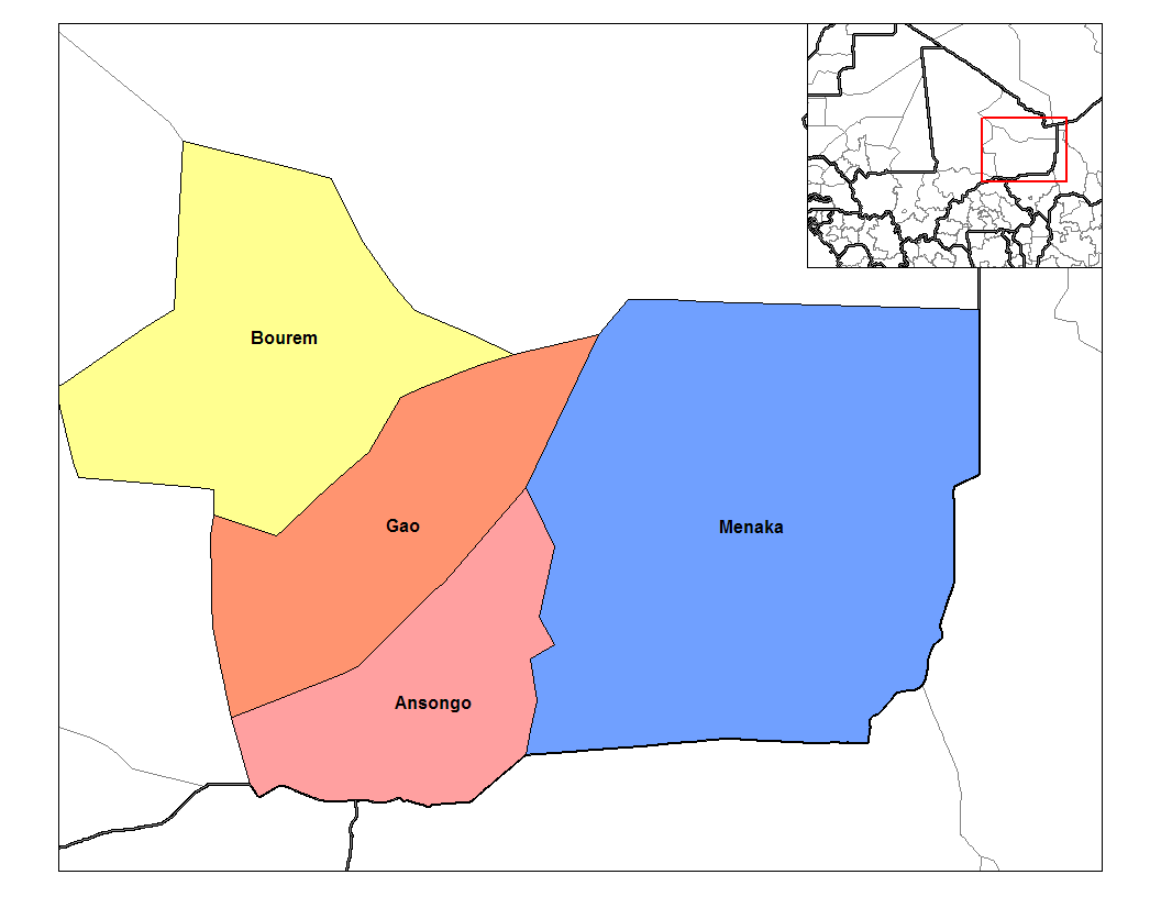 Map of the cercles of Gao region in Mali. Created using MapInfo Professional v8.5 and various mapping resources.